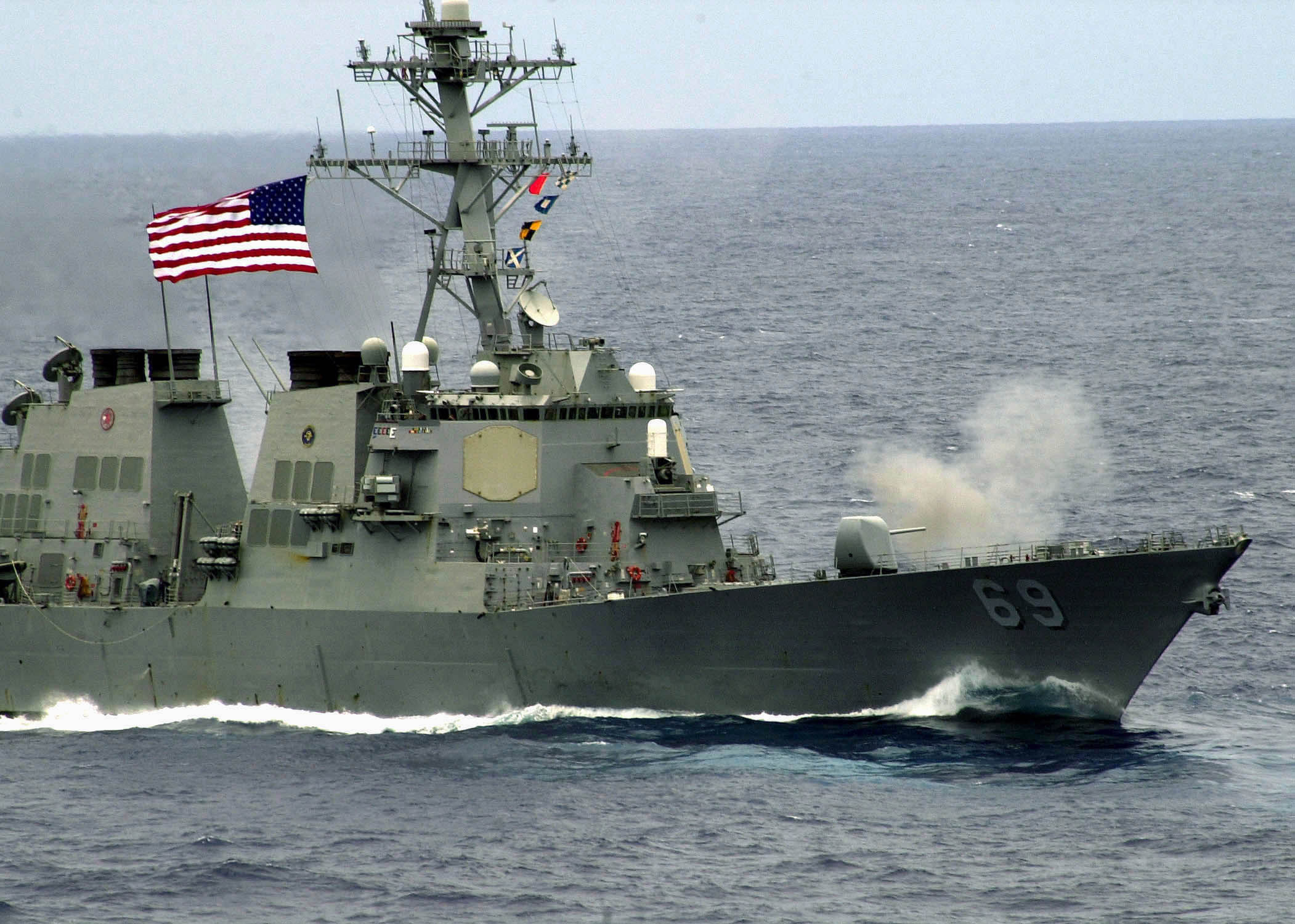 Pacific Ocean (May 20, 2003) – The Arleigh Burke-class destroyer USS Milius (DDG 69) fires its 54-caliber (Mk 45) lightweight gun. The Mk45 provides surface combatants accurate naval gunfire against fast, highly maneuverable surface targets, air threats and shore targets during amphibious operations. Milius is returning from a deployment in which it supported Operations Southern Watch, Enduring Freedom and Iraqi Freedom. U.S. Navy photo by Photographer's Mate 2nd Class Daniel J. McLain. (RELEASED)